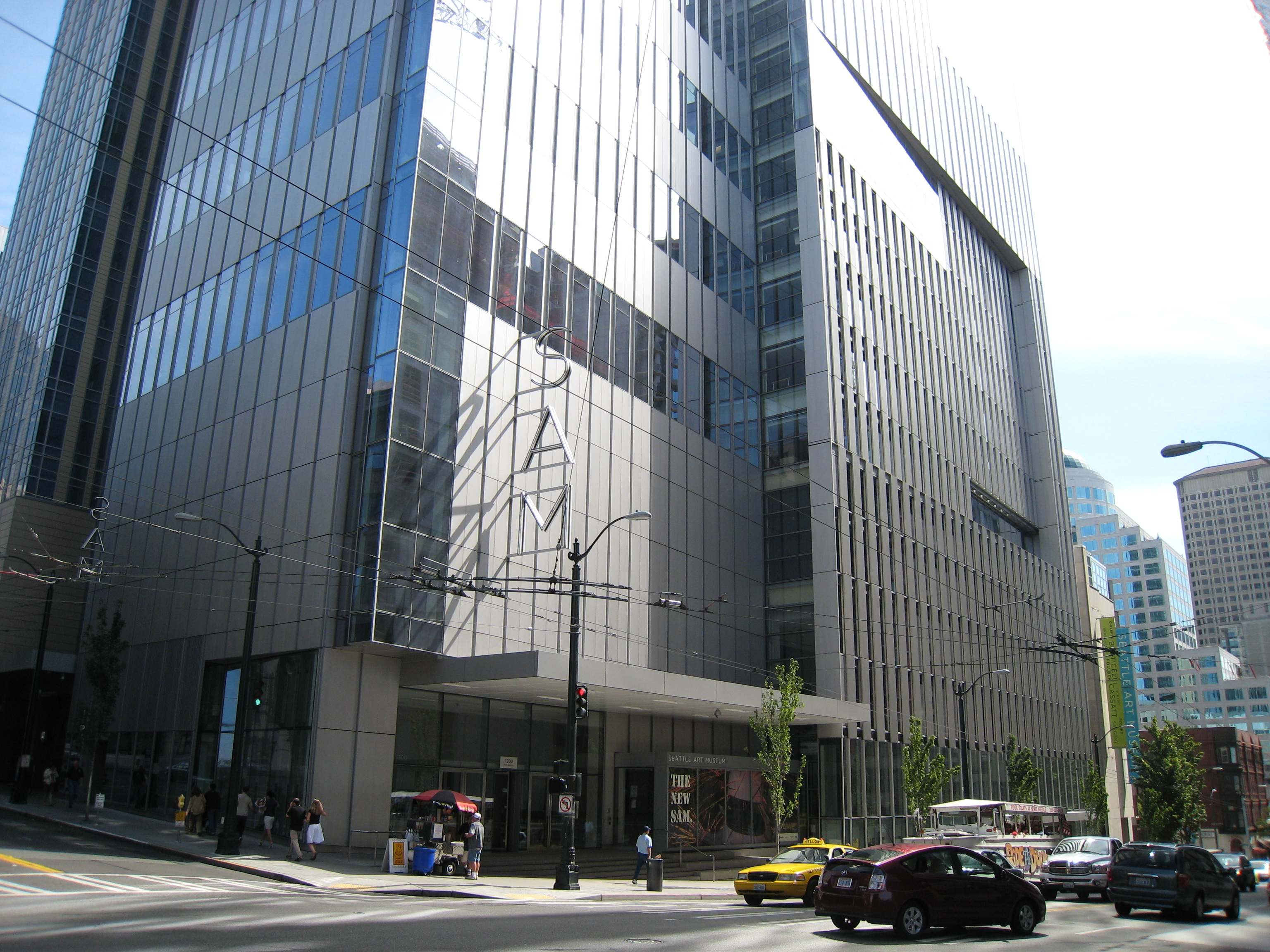 Seattle Art Museum new wing on Seattle, Washington